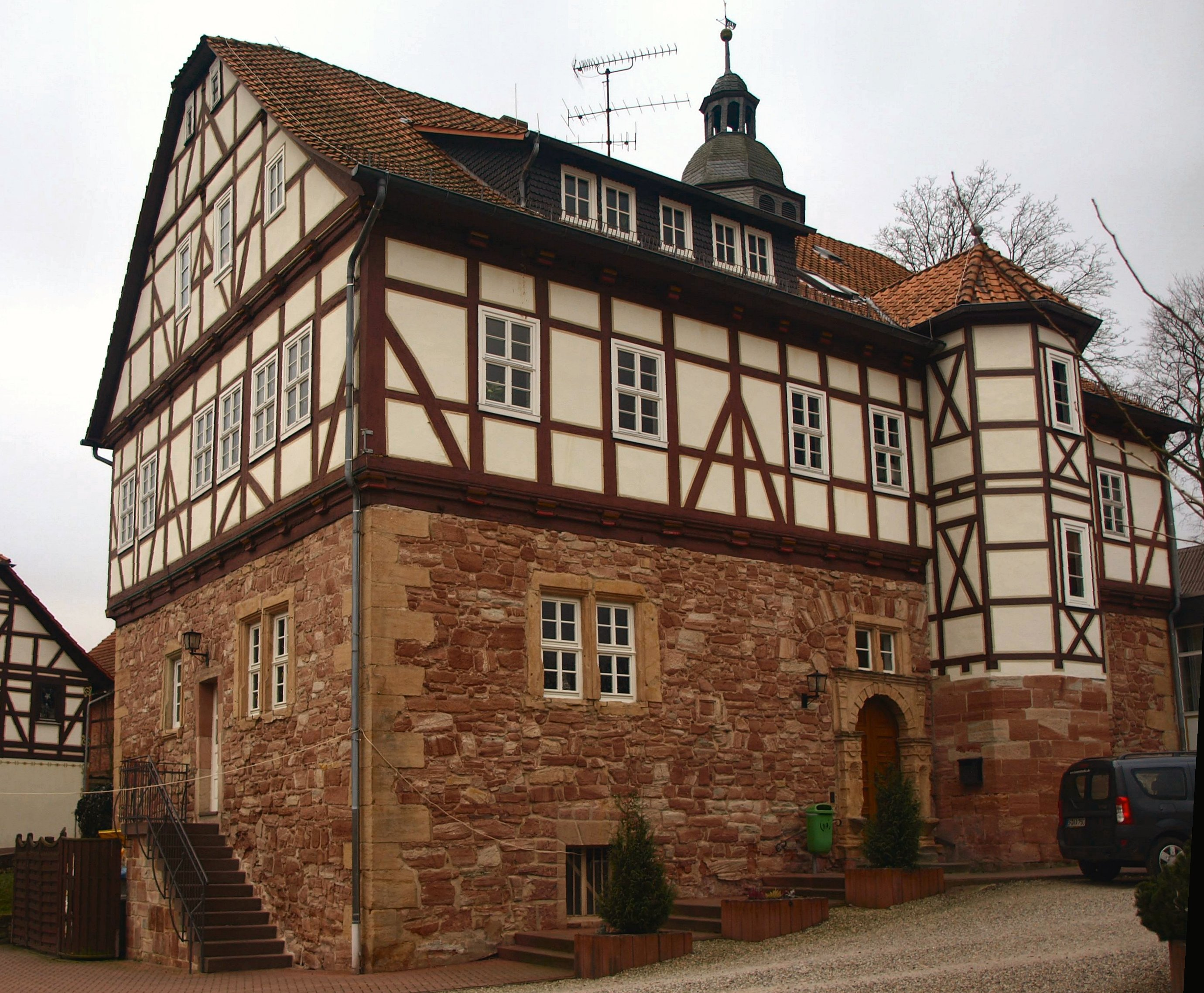 Former manor-house of the family von Cornberg in Wildeck-Richelsdorf.